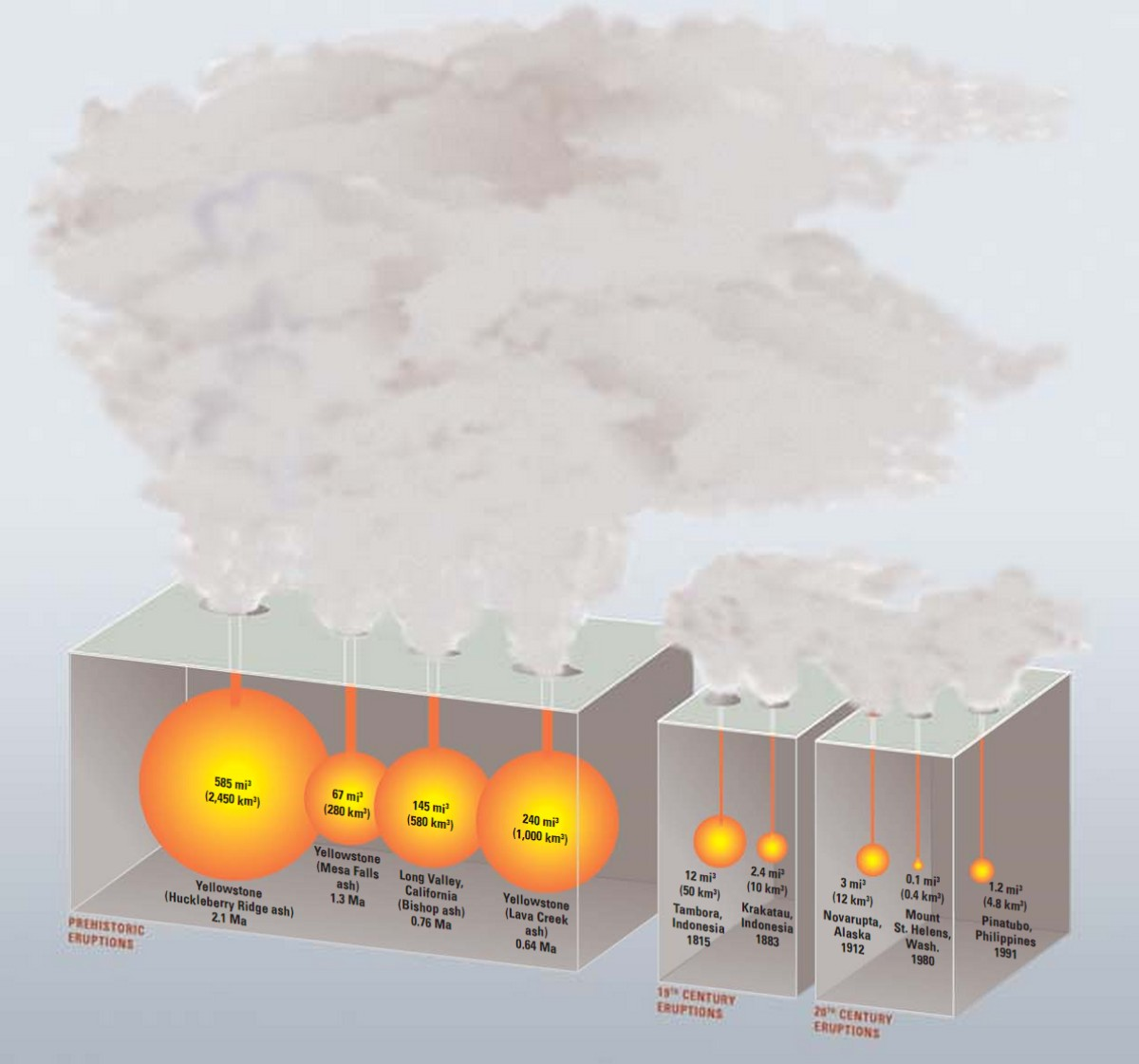 Comparison of magma chambers